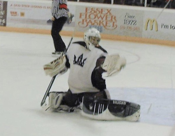 These images of GLJHL action are taken by Devan Mighton.